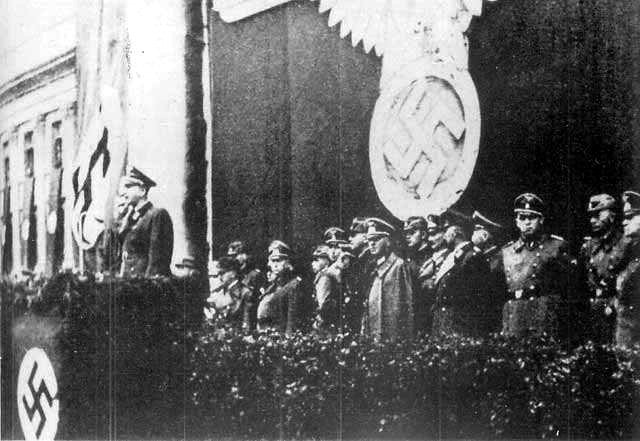 Governor Ludwig Fischer during ceremony of renaming Piłsudski Square to "Adolf Hitler Platz", on the first anniversary of the beginning of war on September 1 1940.